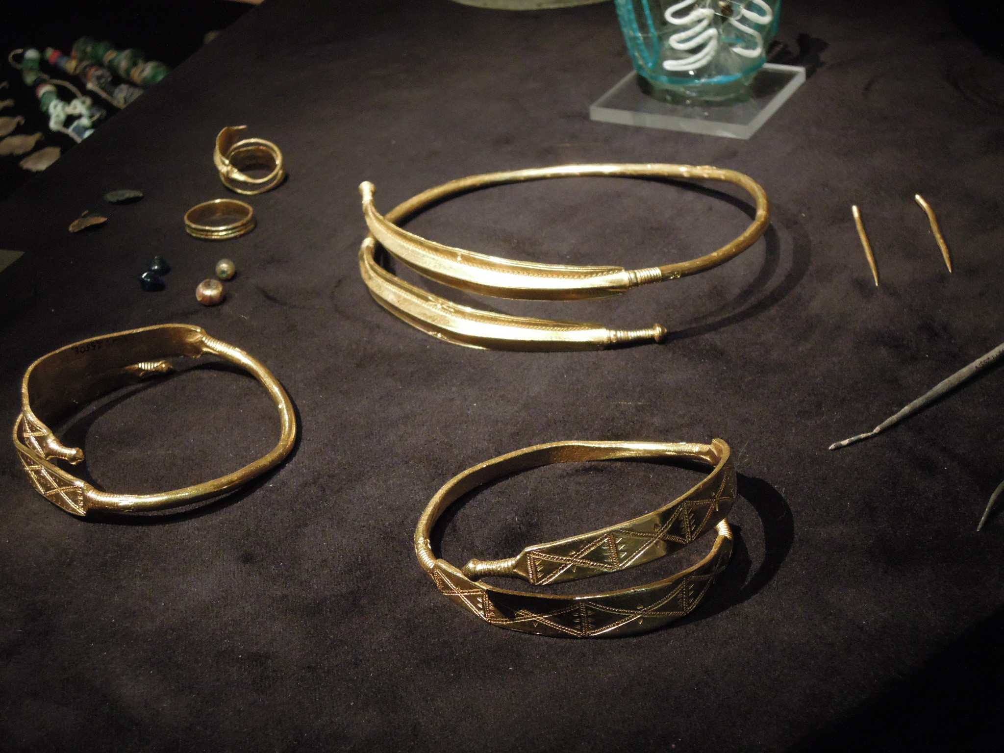 Gold from a grave in Tuna in Badelunda outside Västerås, Sweden, from the 3rd century. It was found in 1952. Picture taken 2014 in Västmanlands läns museum in Västerås. A high ranked woman was buried together with parts of 2 bronze cups, 1 glass beaker, 2 silver spoons, 2 sheets of guilded silver, 2 fingerrings in gold, 2 gold needles, 2 gold armrings, 1 gold neckless, 4 glass beads. Several objects origins from Denmark.